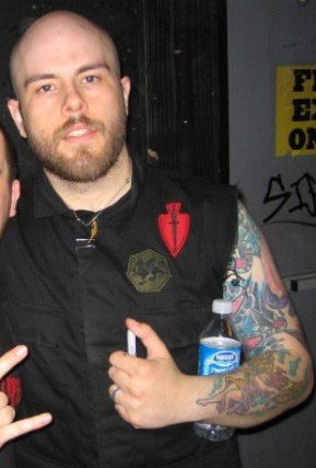 Musician Ryan Clark after a concert in Atlanta, Georgia.